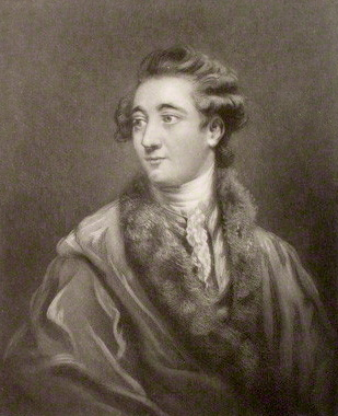 Charles Manners, 4th Duke of Rutland (1754-1787)